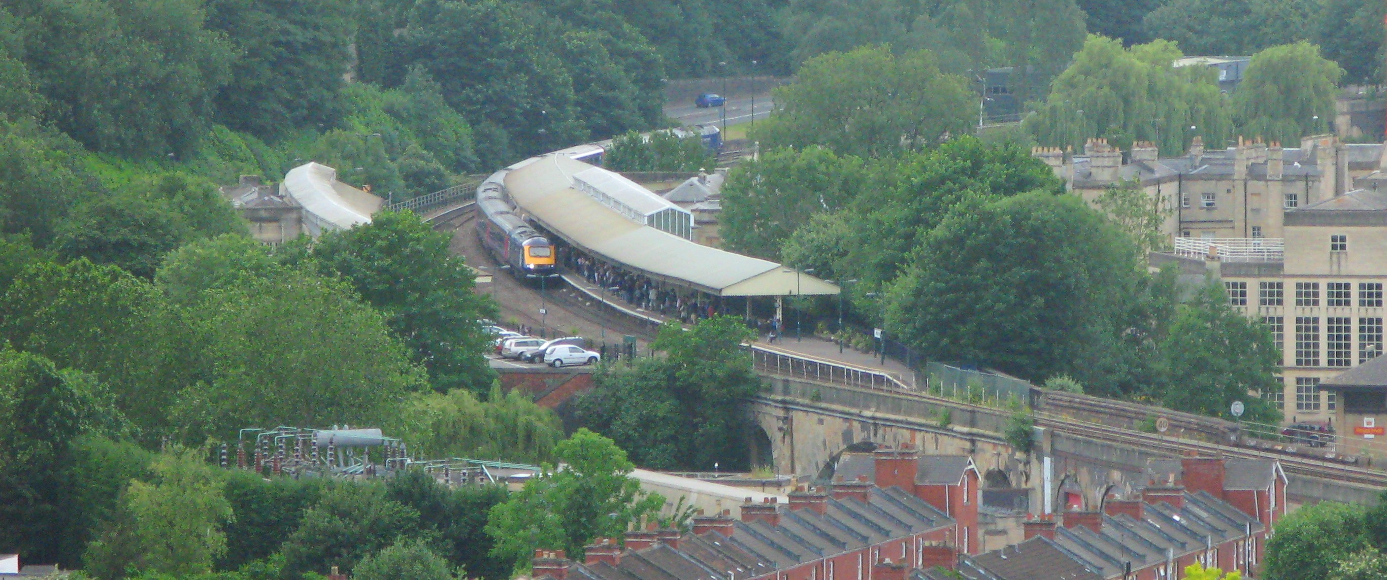 A view from Widecombe Hill looking down onto Bath Spa station in Somerset, England. A First Great Western train for London is arriving at the platform.